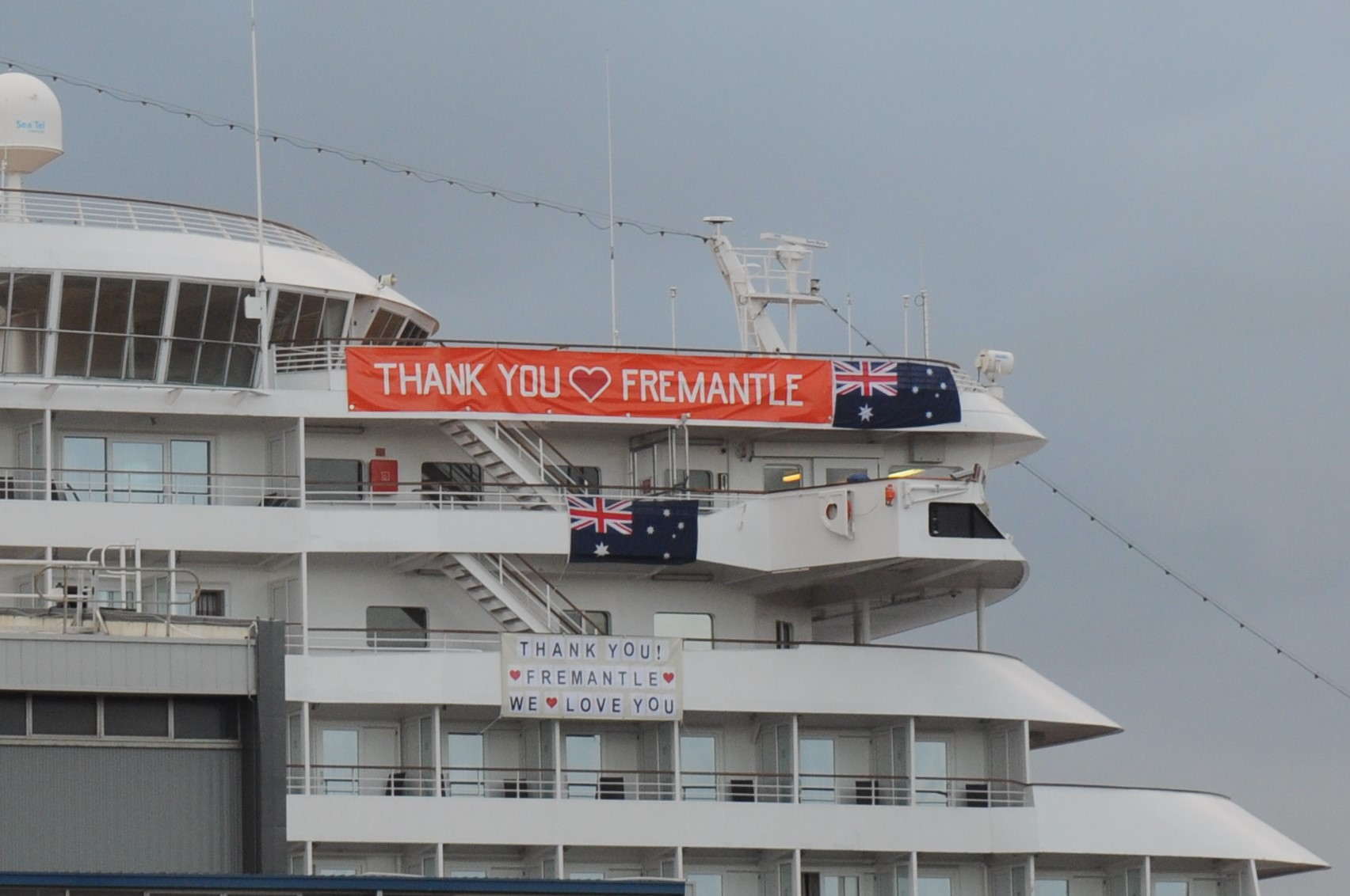 Enlarged version of File:Artania (ship, 1984) in Fremantle in 2020 (4).jpg